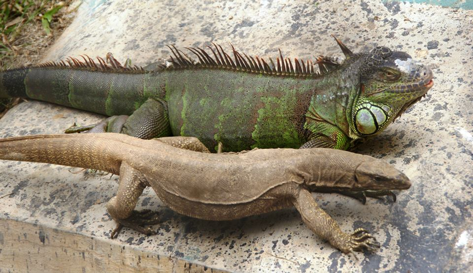 An Iguana and an Indian monitor lizard spotted together in Trivandrum zoo